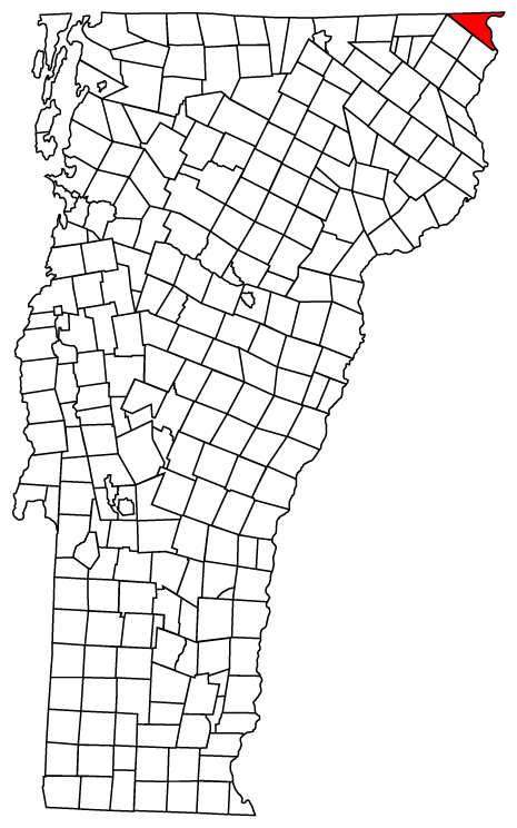 Map of Vermont towns with Canaan highlighted